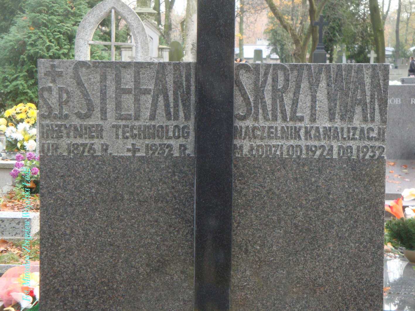 Stefan Skrzywan's grave, Old Cemetery, Łódź